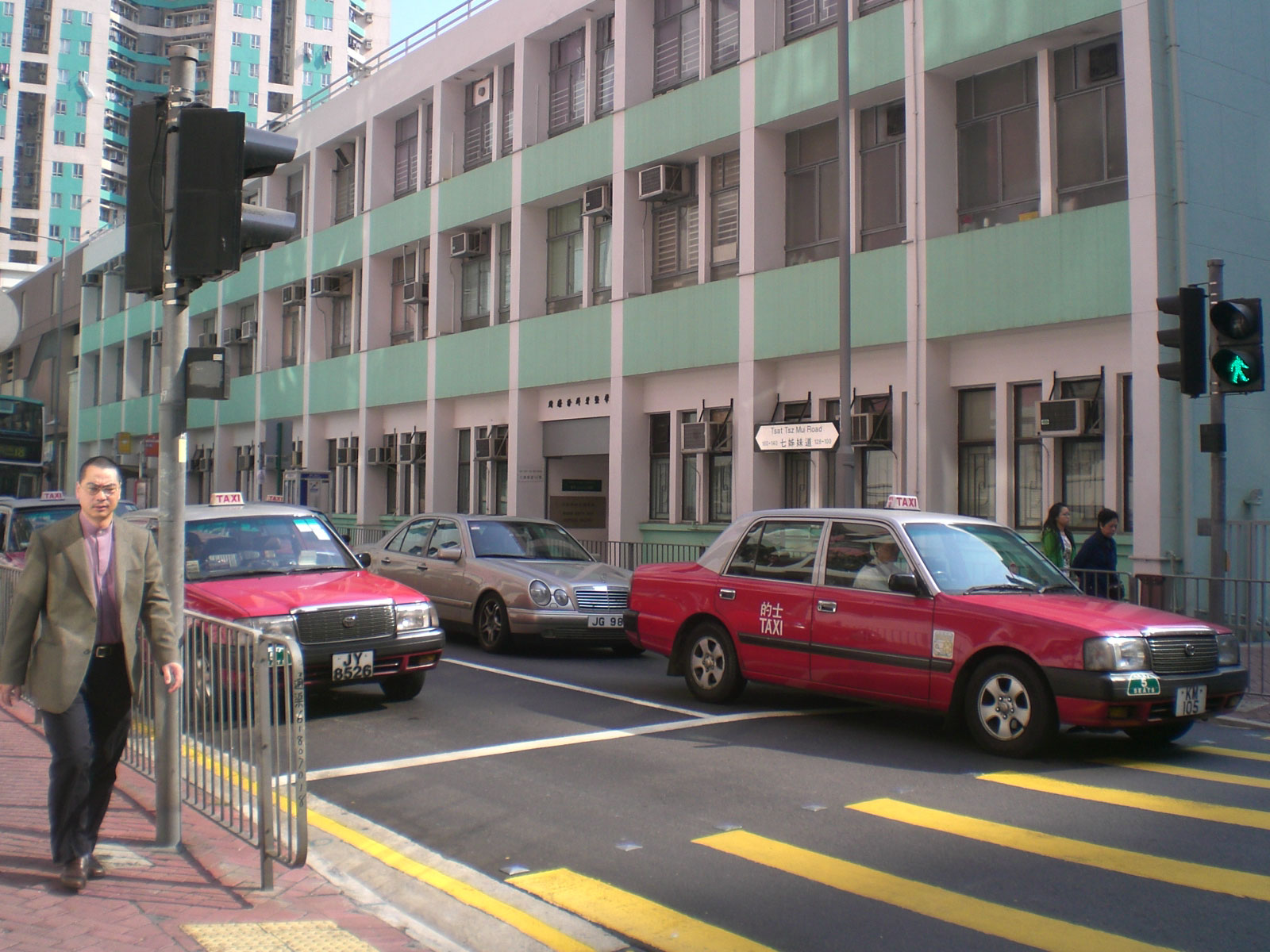 北角七姊妹道, Tsat Tsz Mui Road, North Point, Hong Kong.